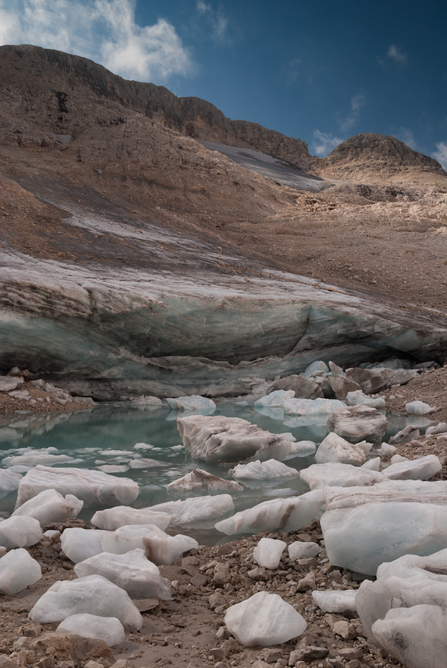 Fradusta Glacier, 2011